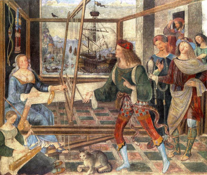 PINTURICCHIO The Return of Odysseus Fresco, transferred to canvas, 124 x 146 cm National Gallery, London